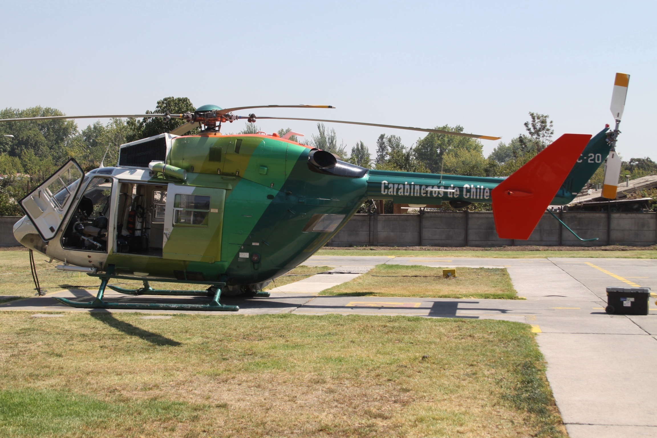 At Tobalaba